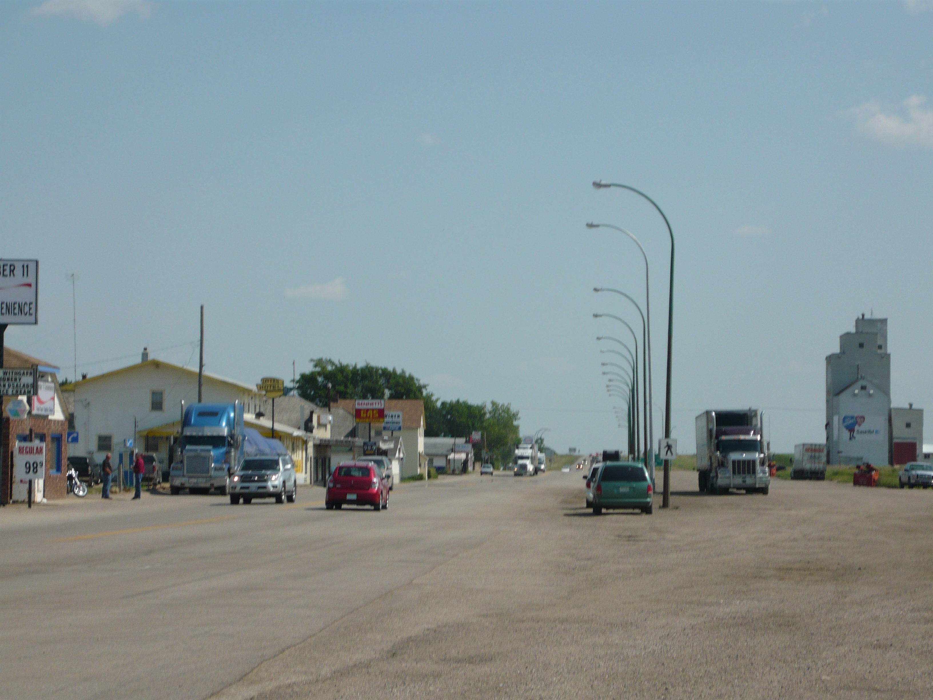 Commercial strip along Highway 11, Town of Chamberlain, Saskatchewan, Canada.